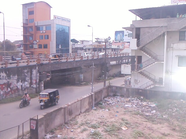 kathrukadavu bridge